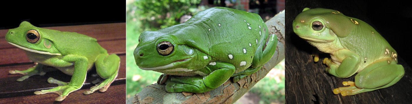 Comparison of the large green tree frogs of temperate and tropical Australia. Left is the White-lipped Tree Frog (Litoria infrafrenata), the centre is White's Tree Frog (Litoria caerulea) and the right is the Magnificent Tree Frog (Litoria splendida)